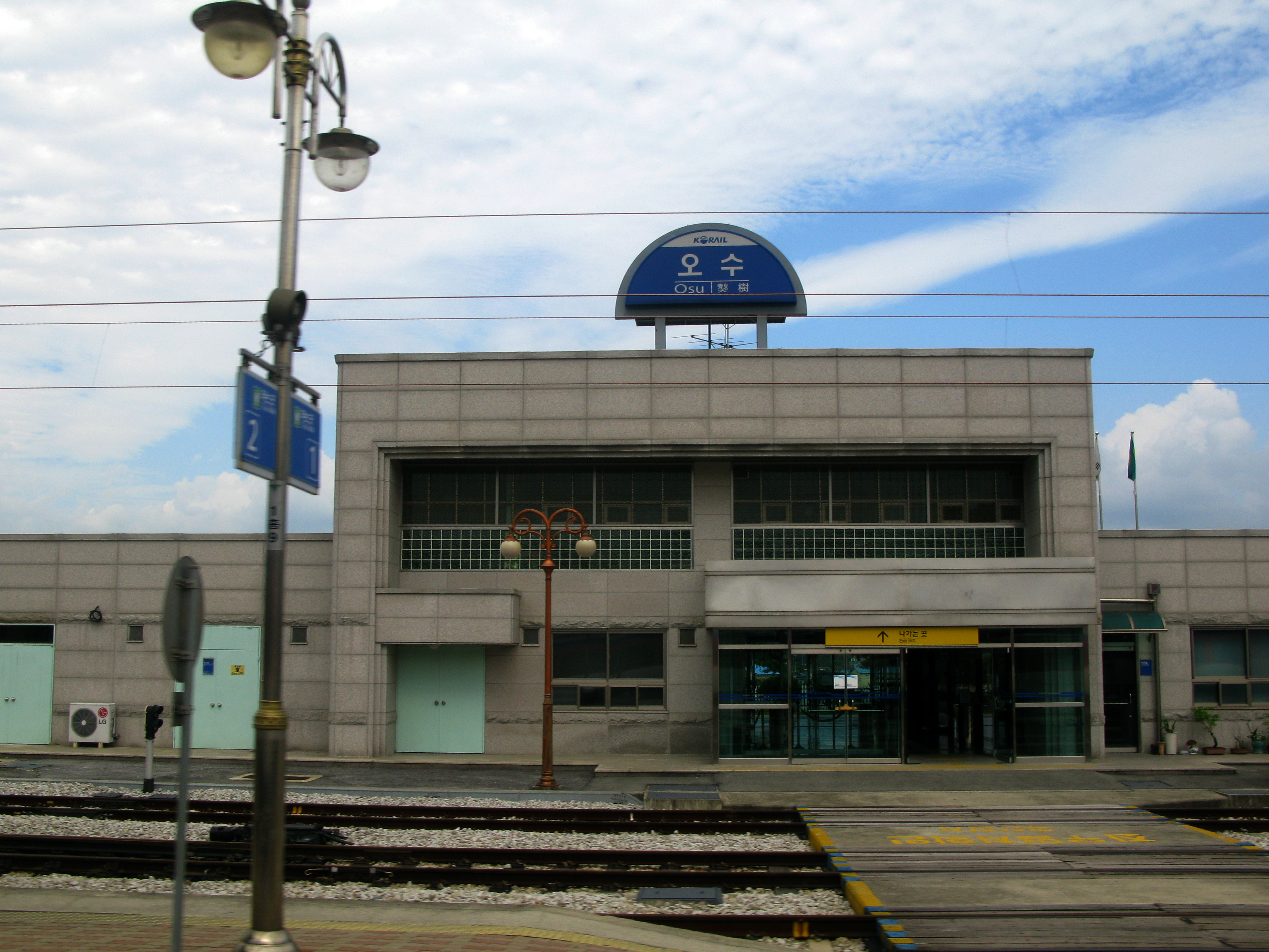 Jeolla Line Osu Station